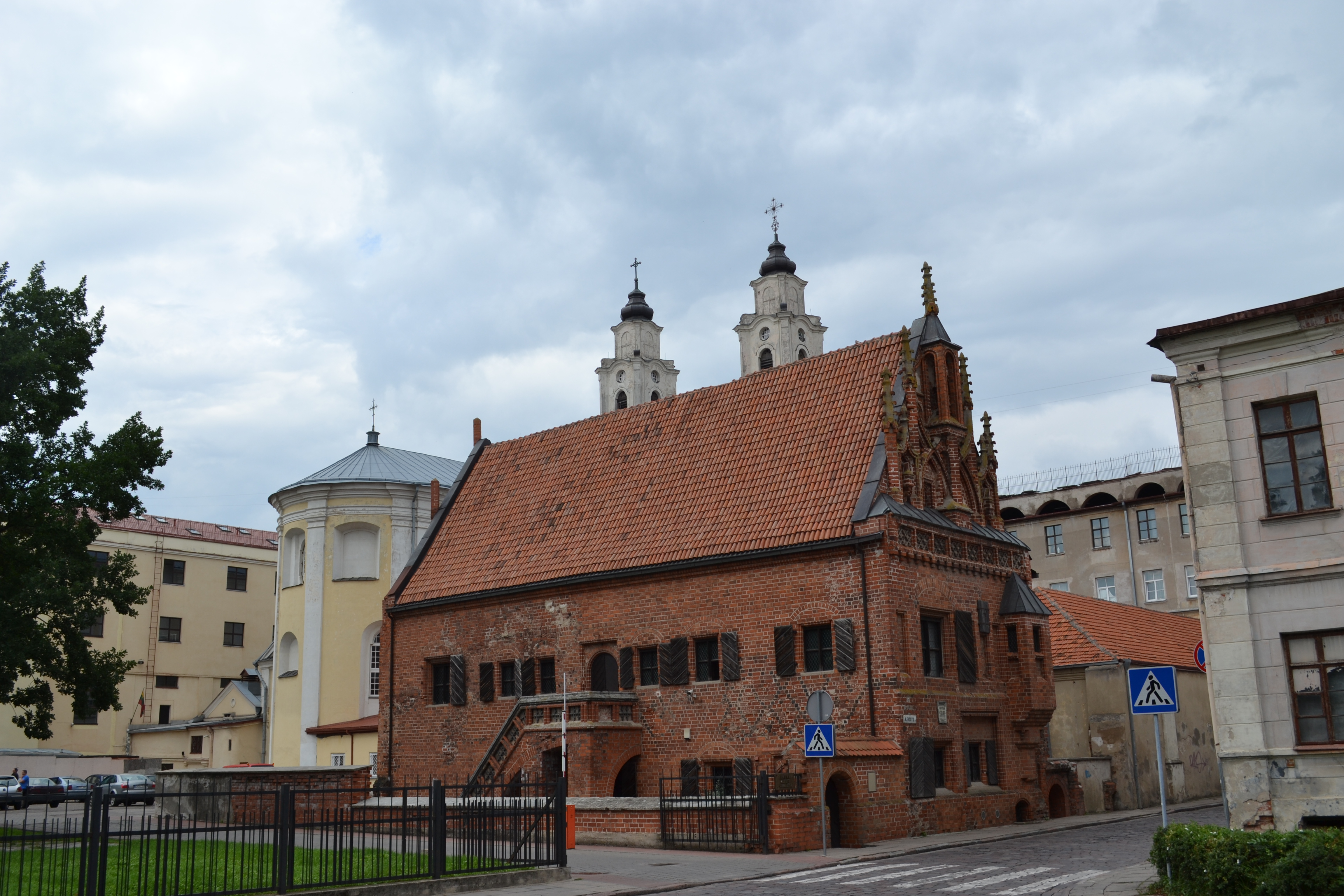 House of Perkunas kaunas